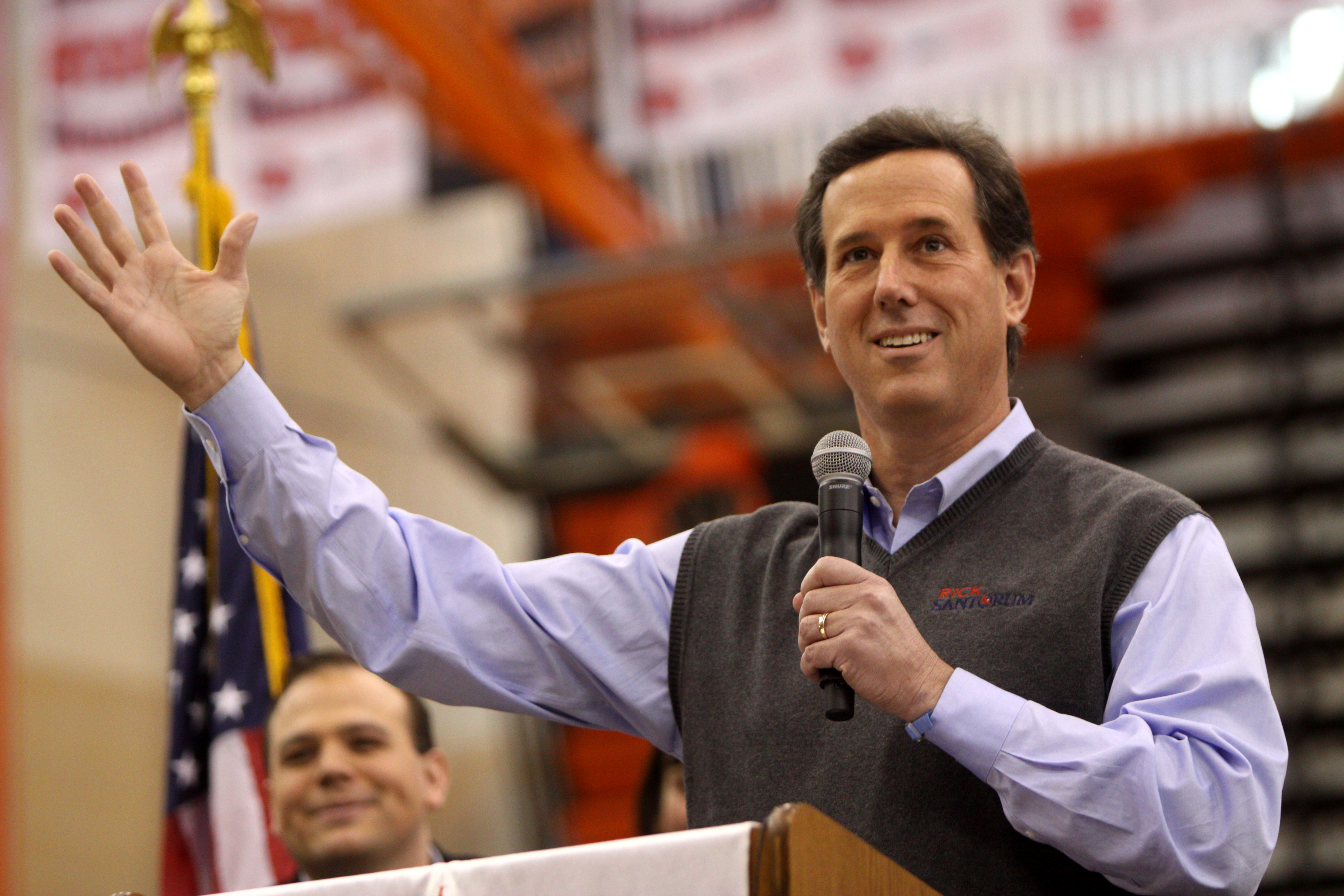 Rick Santorum speaking to students at Valley High School in West Des Moines, Iowa.